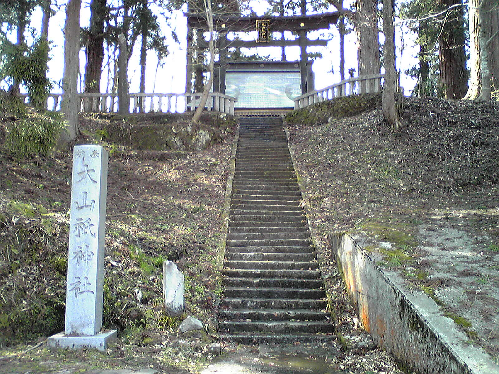 Oyamazumi Shrine, Fukushima, Japan.